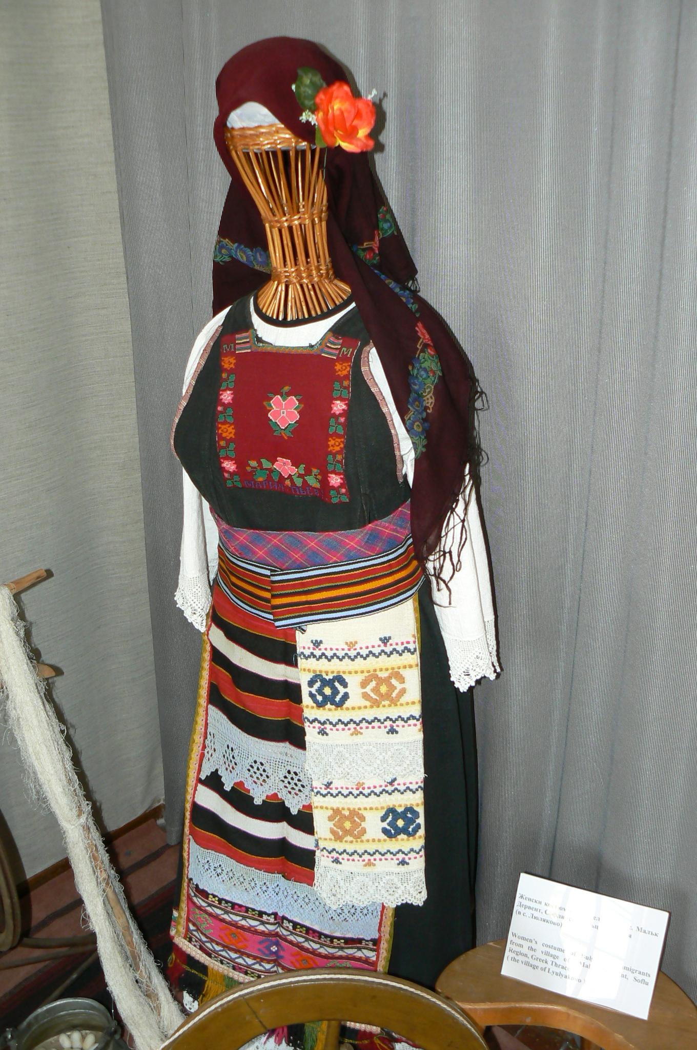 Traditional female costume from village Lyulyakovo, Burgas ethnographic museum